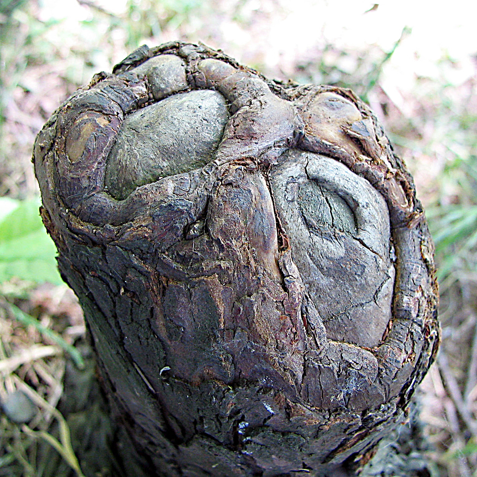 Lenticels on the top of pneumatophore of bald cypress tree